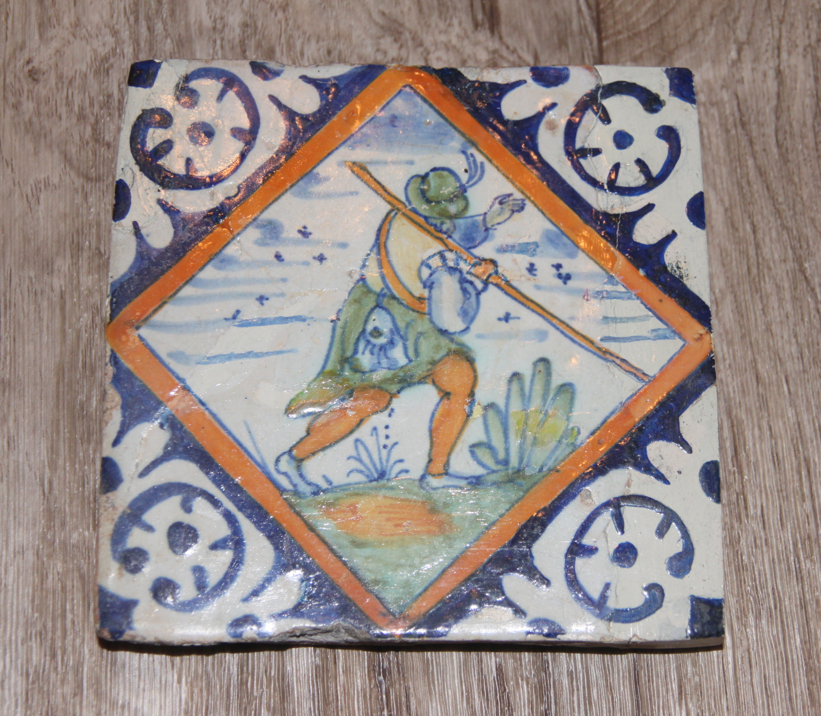 A tile with fierljepper polejumper from Holland, 17th centry. The pole was also used for hunting